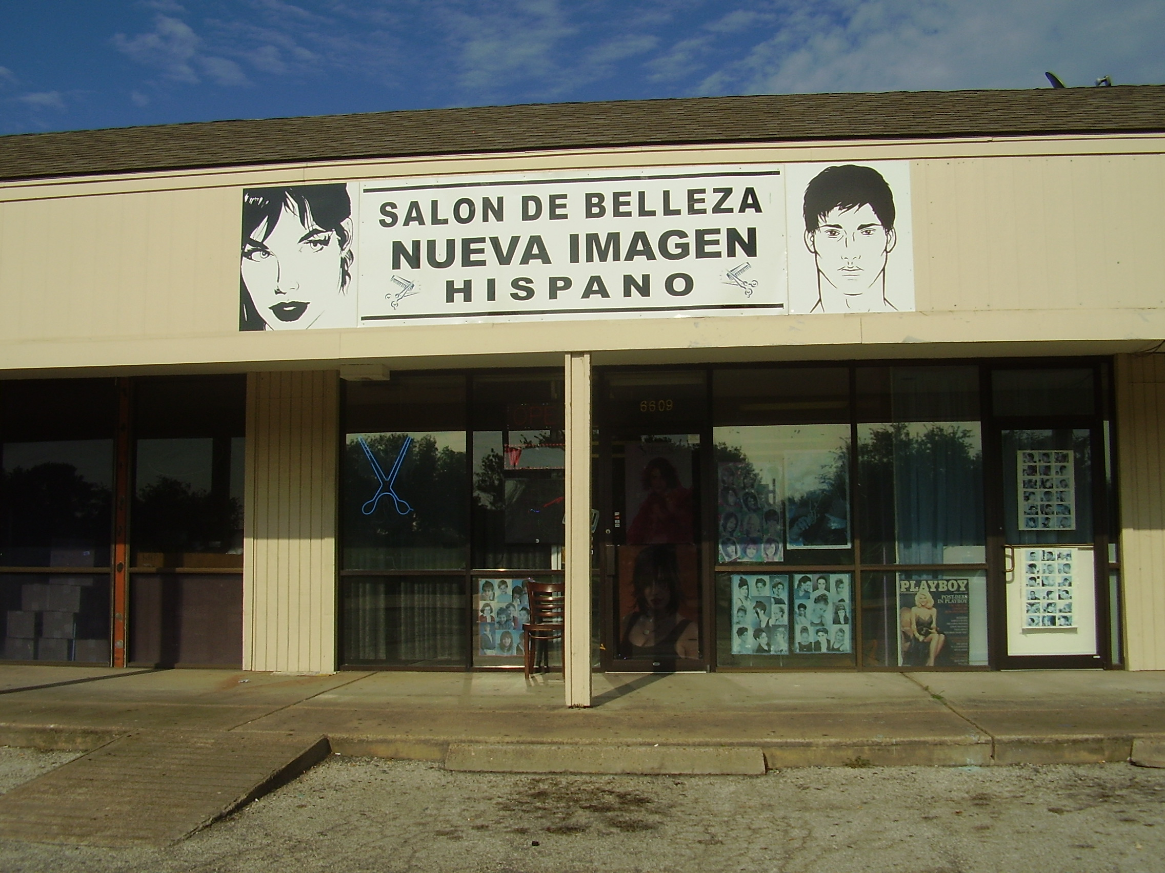 Salón de Belleza (beauty salon) Nueva Imagen Hispano (New Hispanic look) - 6609 South Gessner Suite E, Houston, TX